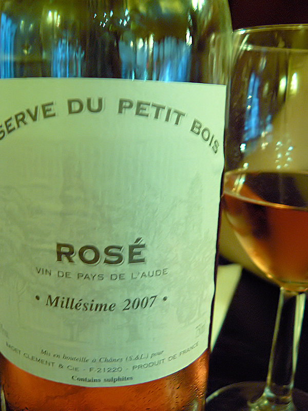 French rose wine from the Vin de Pays de L'Aude wine region of the Languedoc.